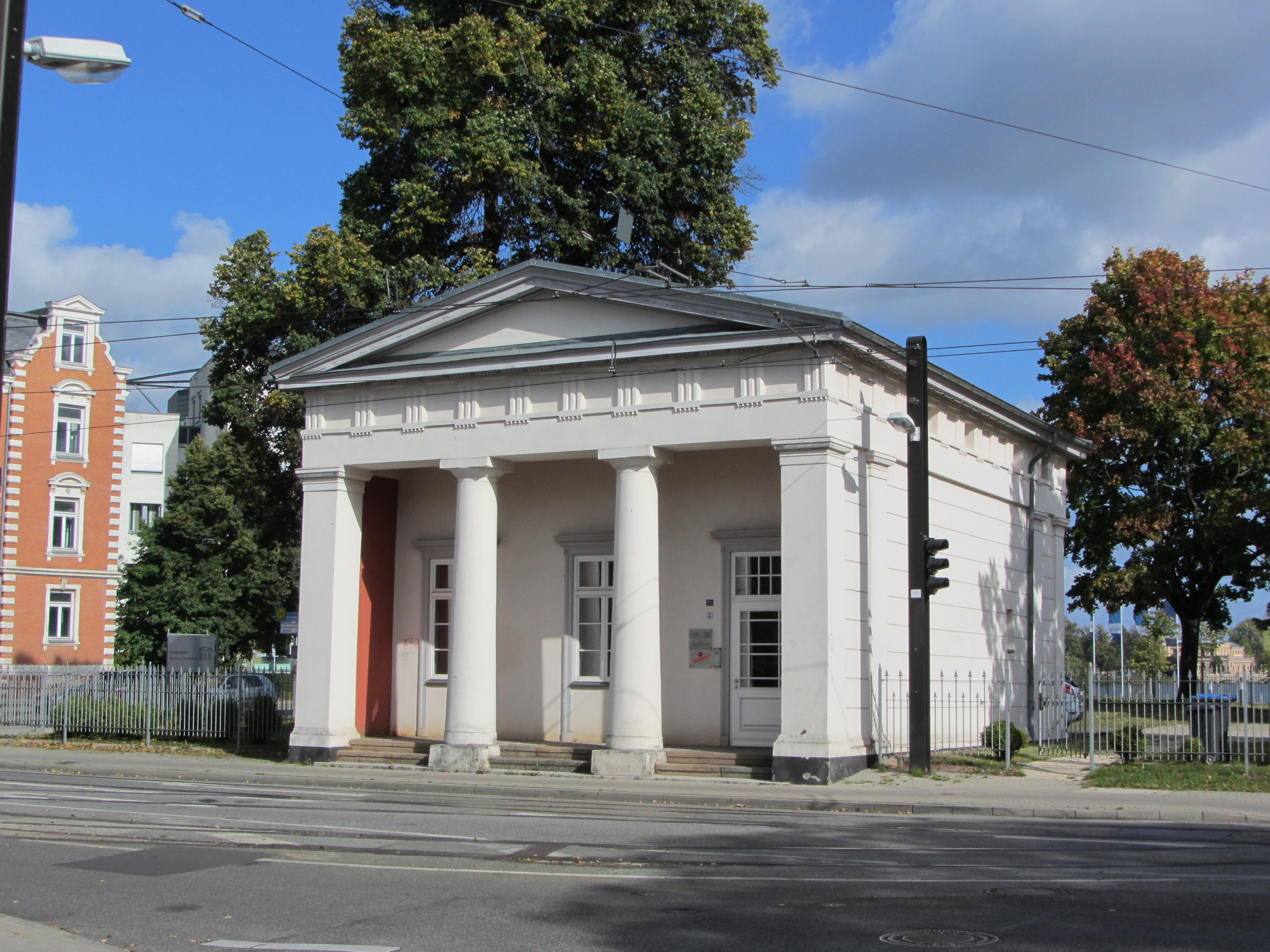 Platz der Jugend 12, Gatehouse Berliner Tor in Schwerin, Mecklenburg-Vorpommern, Germany (Caution: wrong house number in file name)